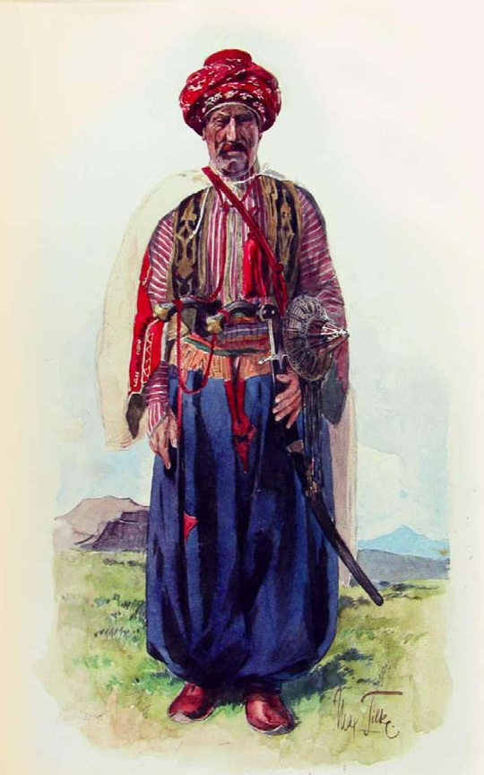 Yazidi man in traditional clothes